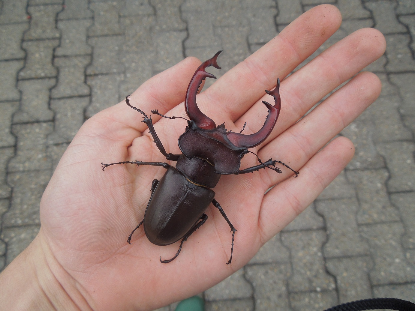 97 mm